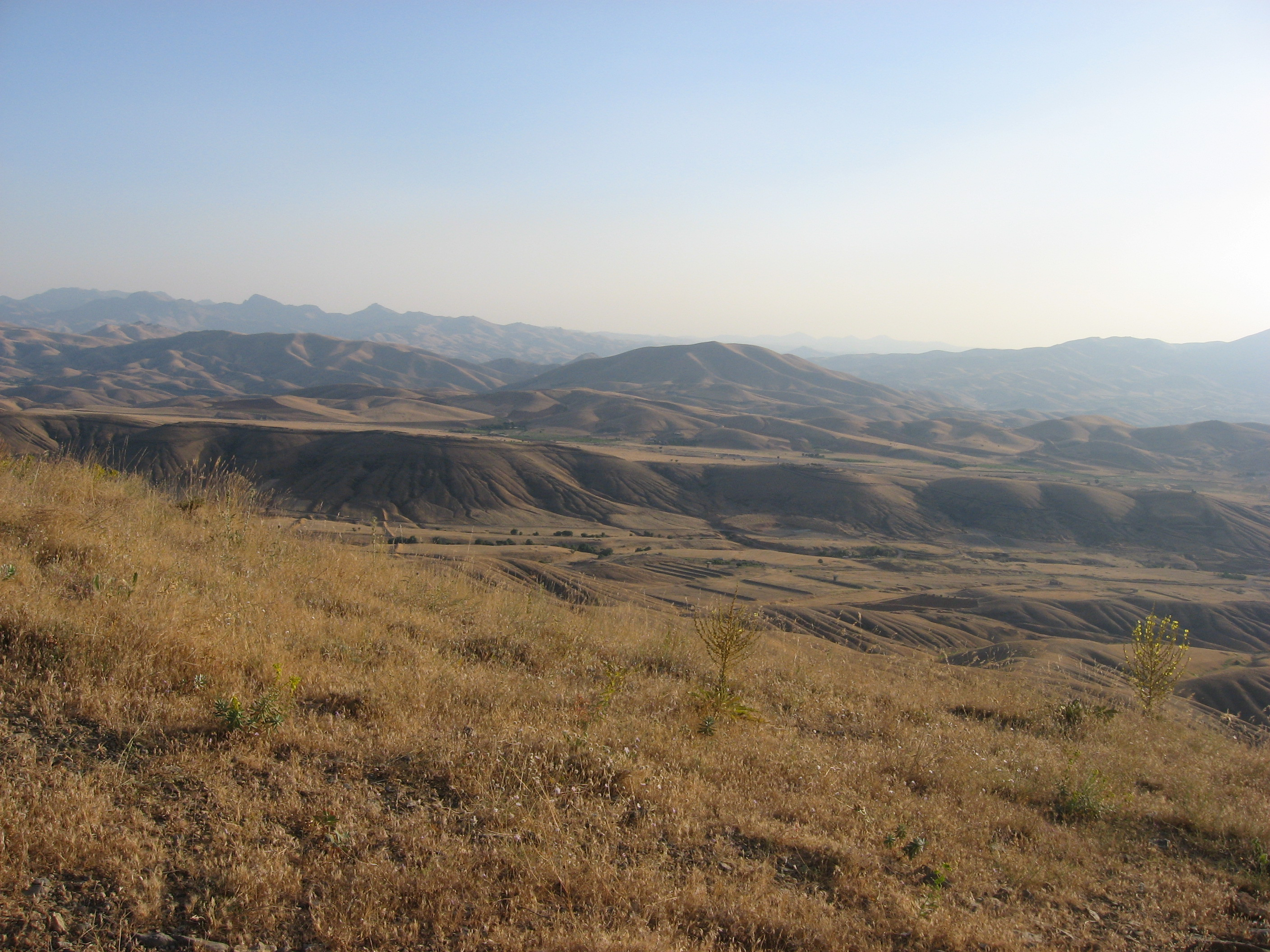 The west part of the Iranian mountain Abidar. Abidar is located in the city of Sanandaj.